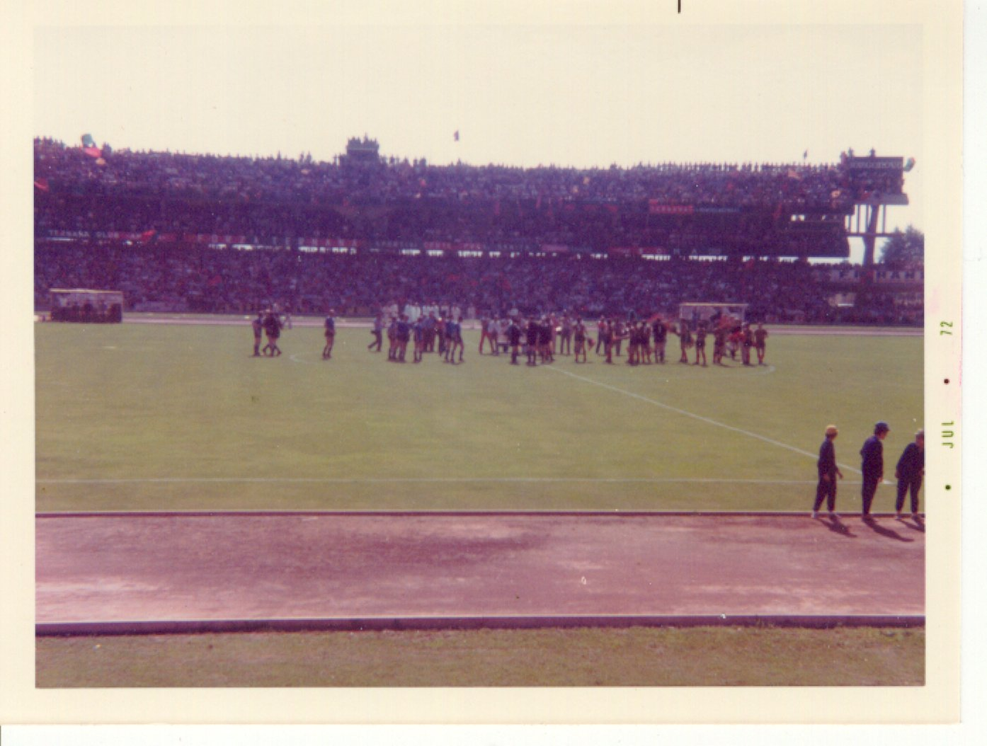 Terni (Italy), "Libero Liberati" Stadium, June 18, 1972. A.C. Ternana — A.C. Novara (3-1), Matchday 38 of the Italian League 1971–72 Serie B.